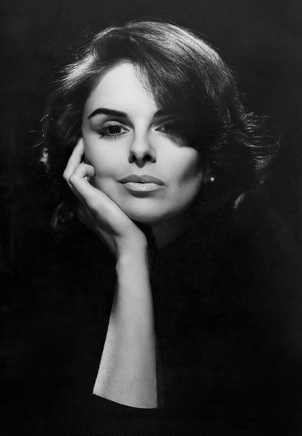 Portrait of Argentine actress María Vaner, by Annemarie Heinrich, 1959.